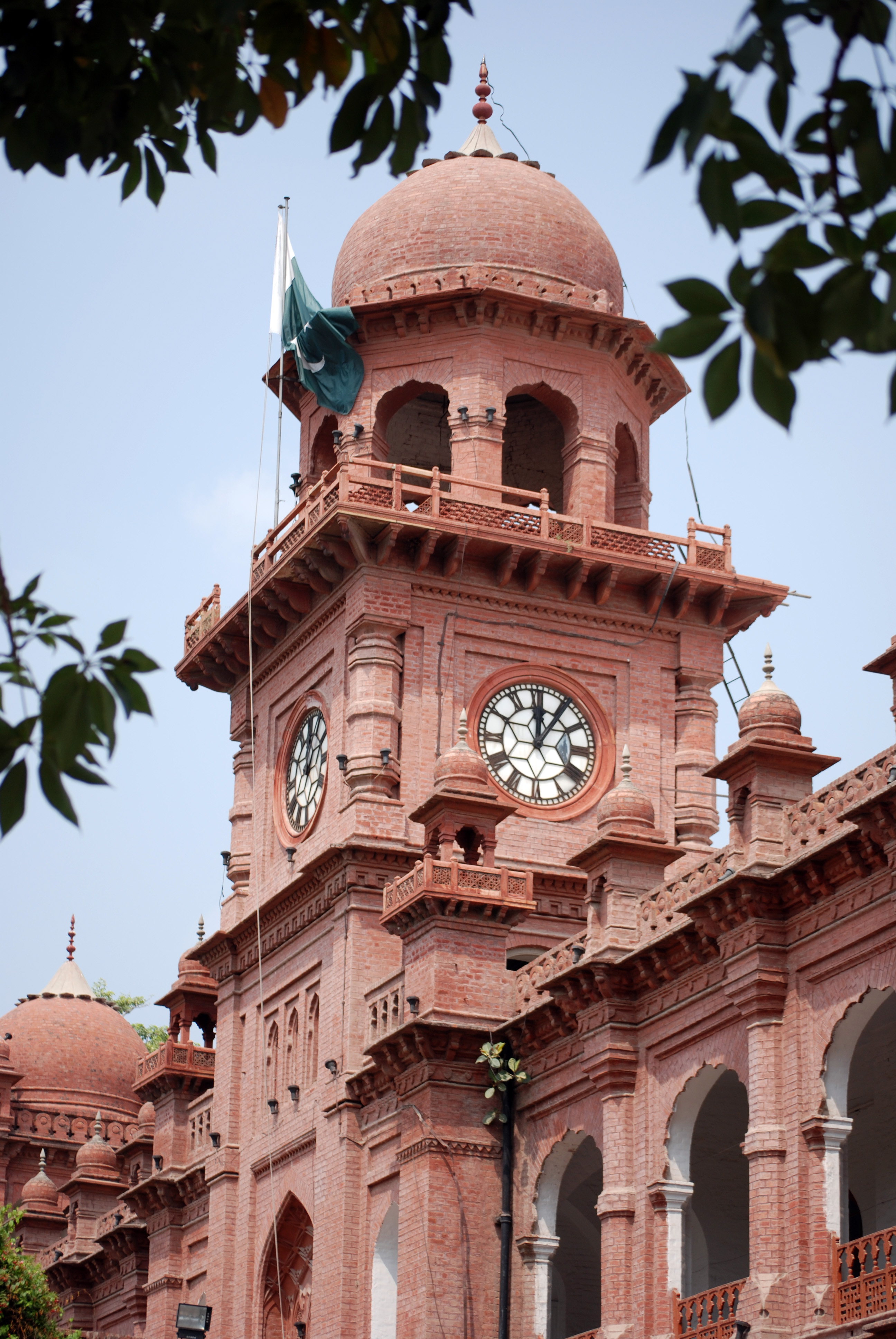 Punjab University This is a photo of a monument in Pakistan identified as the PB-P-70